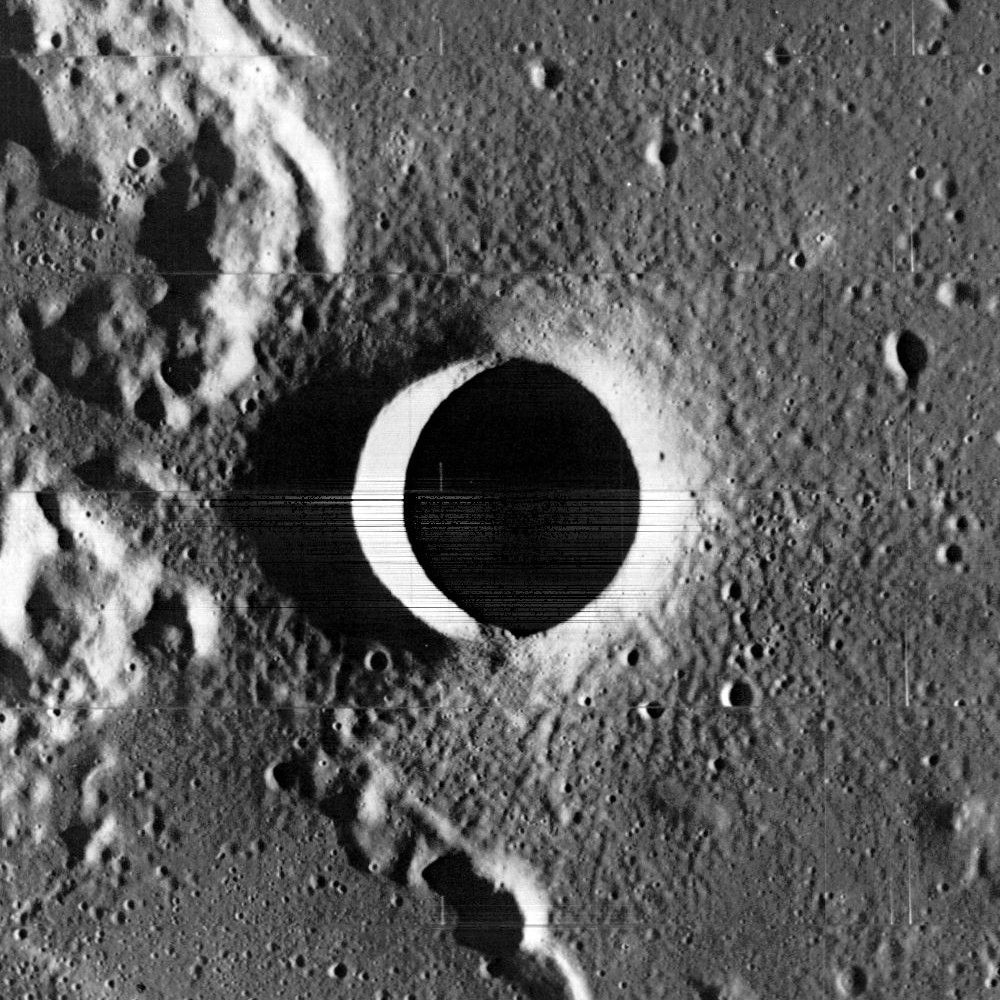 Taruntius F crater, east of Taruntius, on the moon.